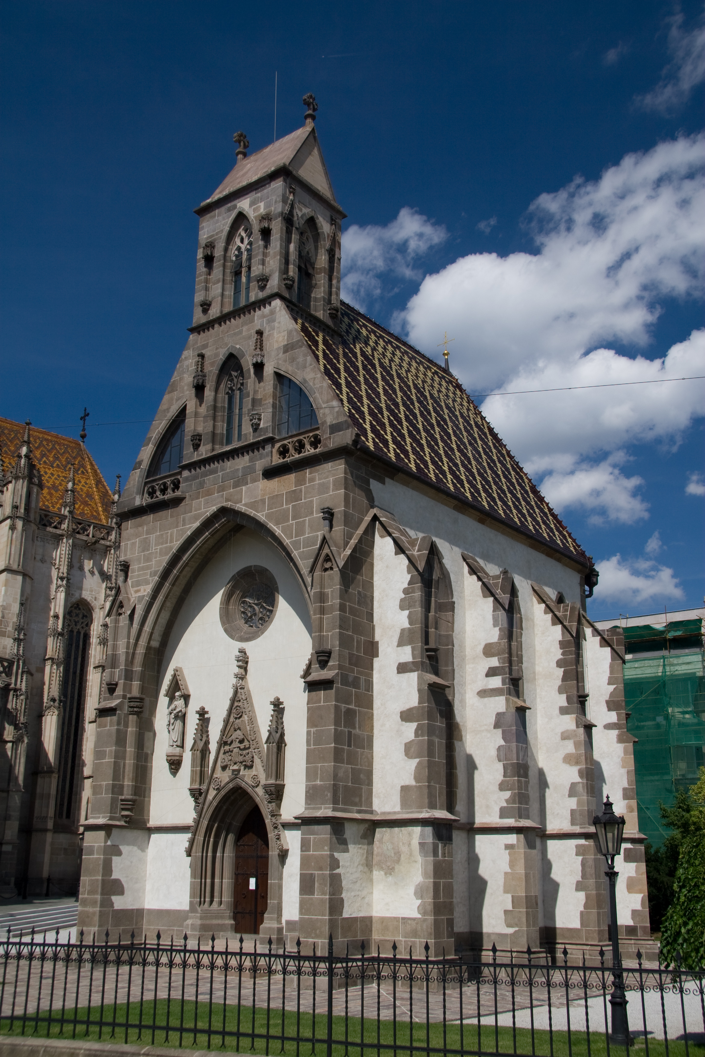 St. Michael‘s Chapel, Košice, Slovakia This medium shows the protected monument with the number 802-1117/2 in the Slovak Republic.